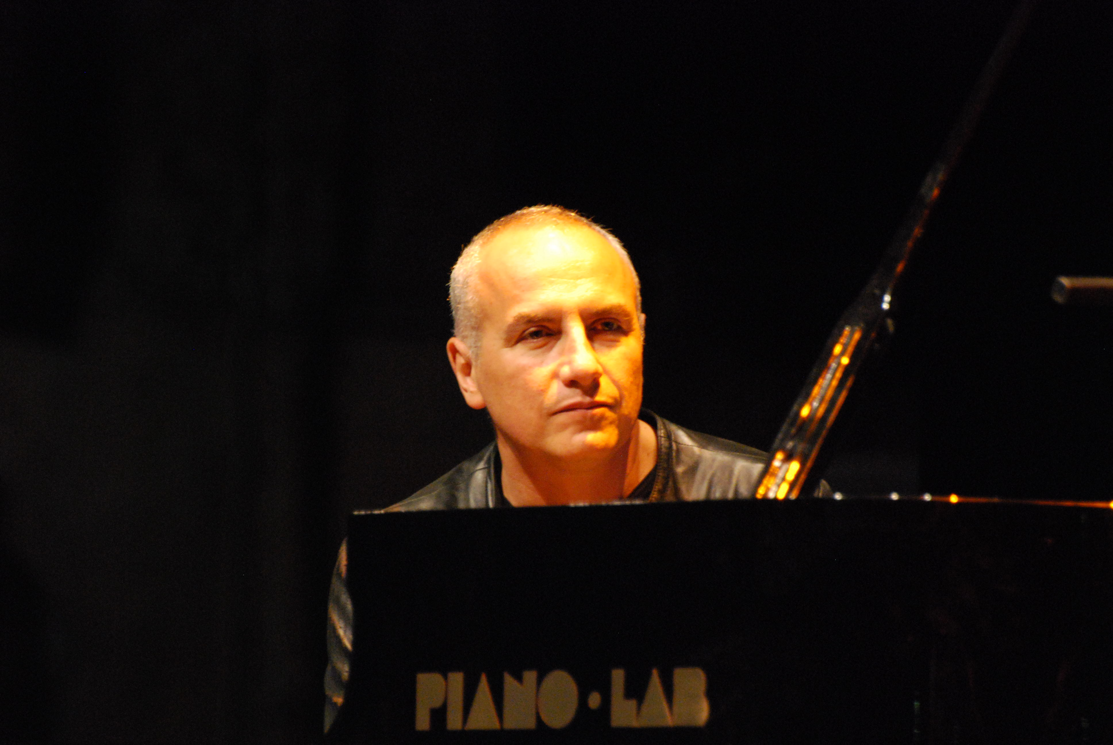 Danilo Rea at Internazionale review show in Ferrara (Italy) 2010, 2nd of Oct.